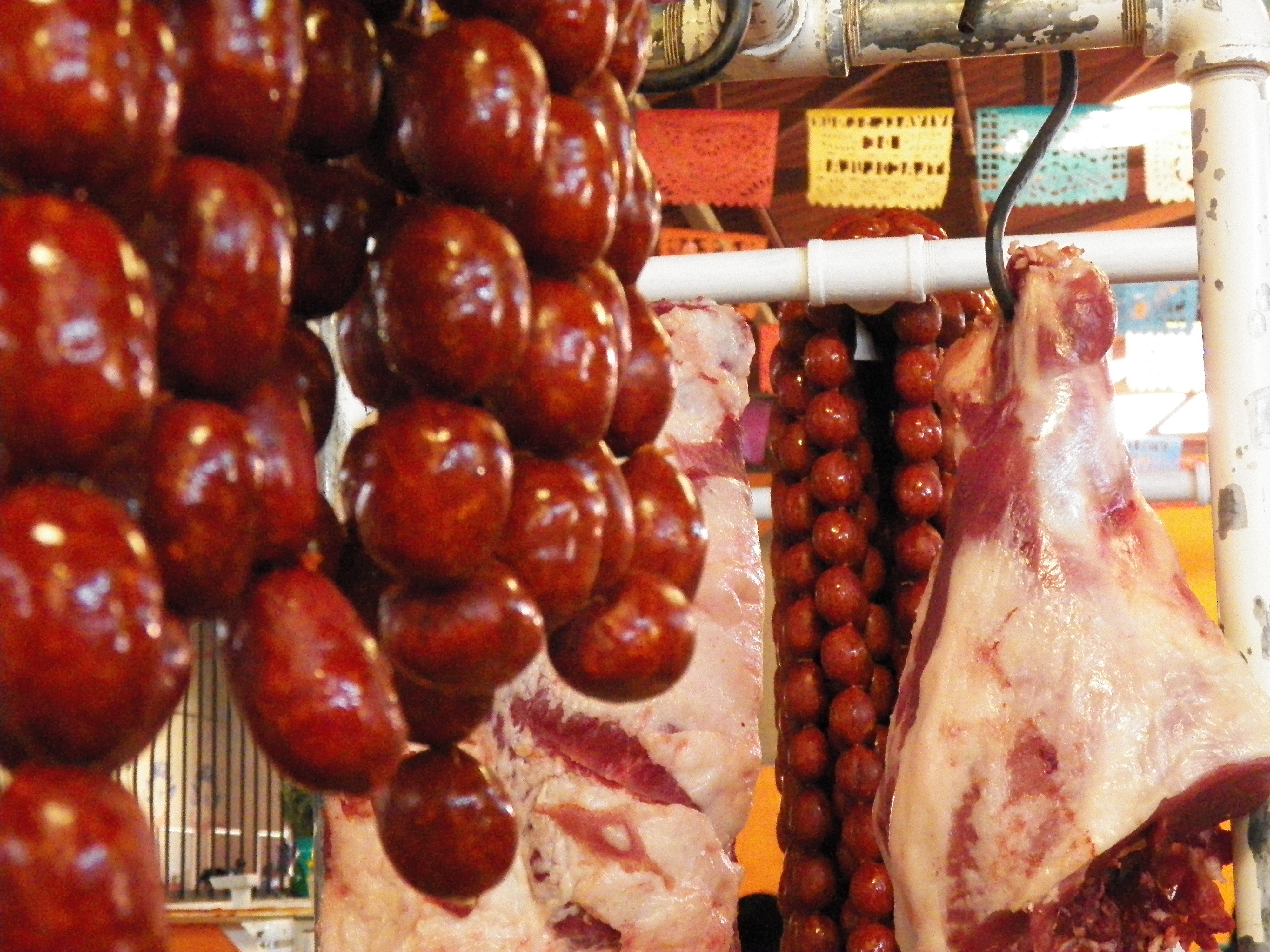 Hot sausages, Oaxaca, Mexico